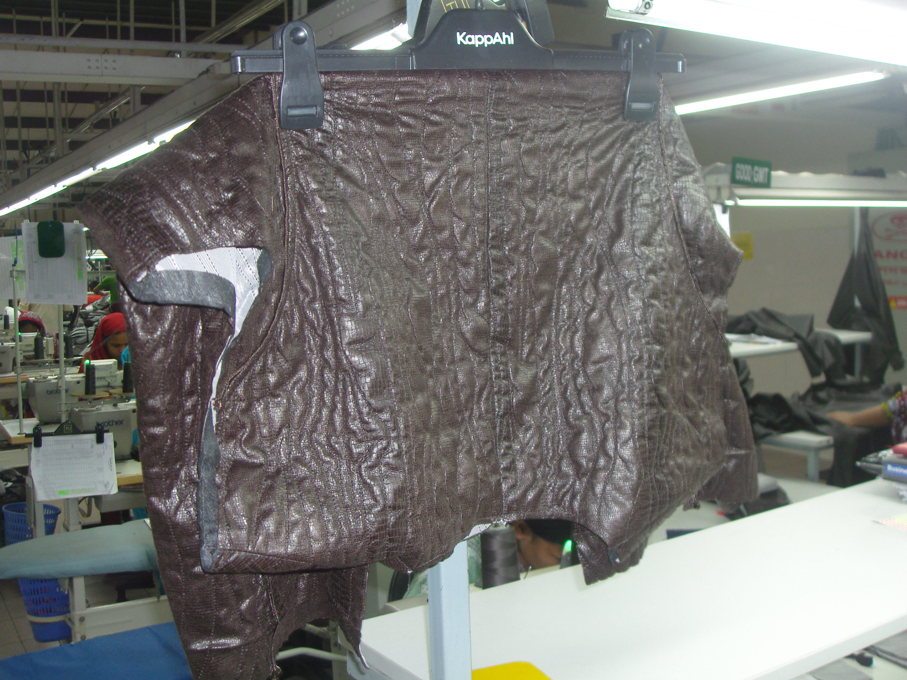 Fake leather Jacket Made in Bangladesh